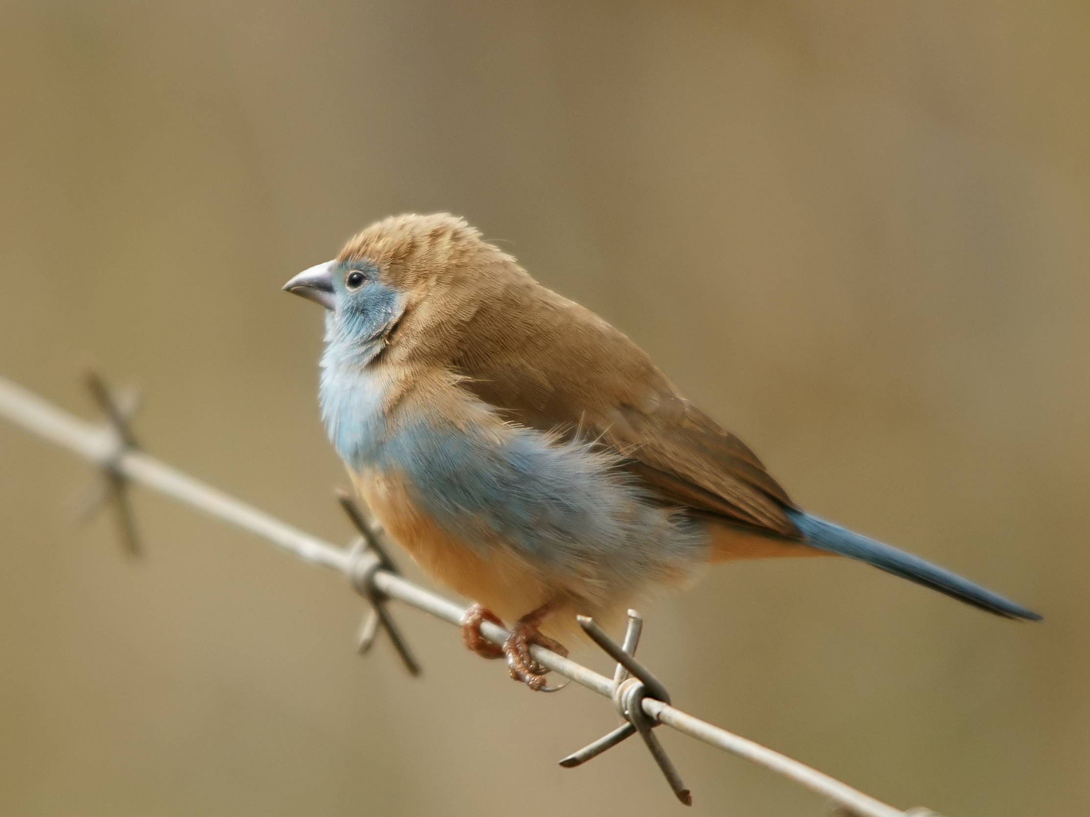 Female Blue Waxbill close Chilanga near Lusaka, Zambia.